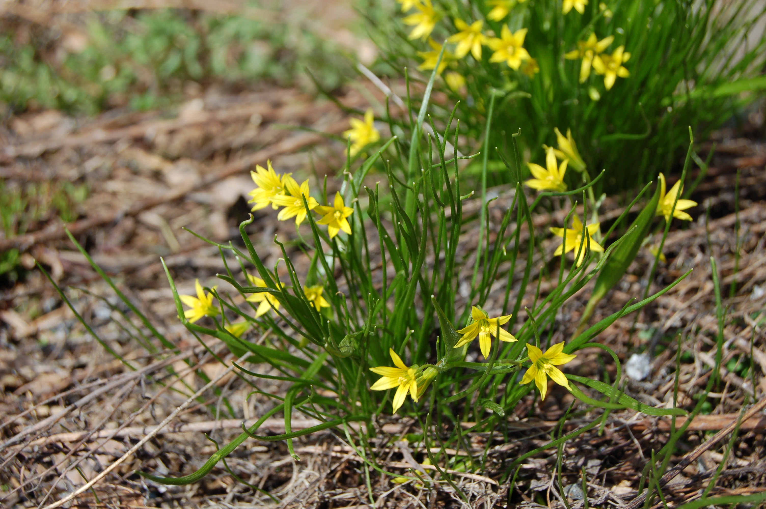 Gagea minima in Parikkala, Finland